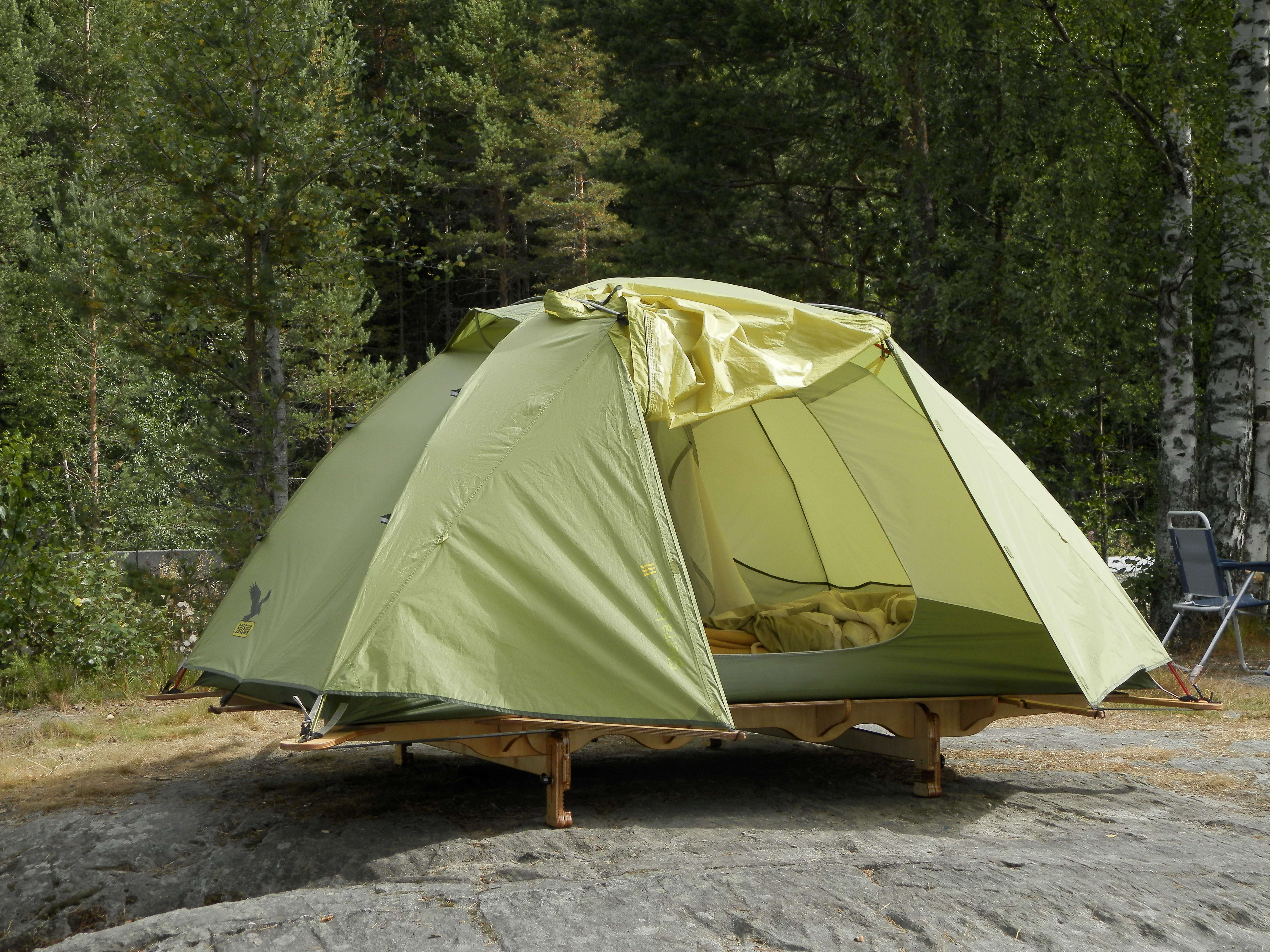 Portable tent platform from Gangolf Jobb, with a tent pitched on it.